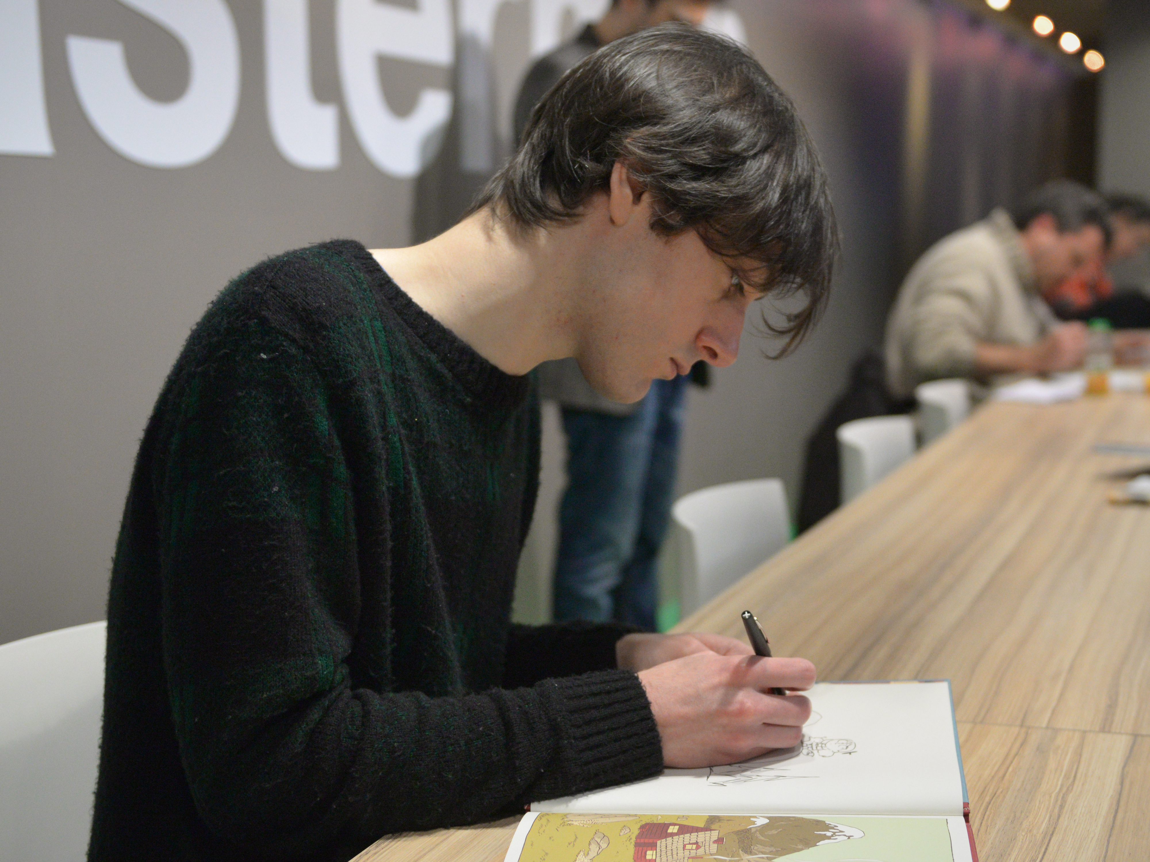 British comics artist Luke Pearson in autograph session at Angoulême International Comics Festival 2015, january 2015.